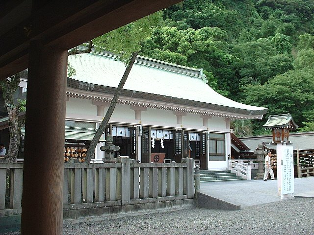 Terukuni shrine, Kagoshima